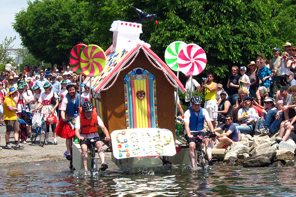 The 2010 East Coast Champion Candy Haus enters the Baltimore Harbor at Canton. Photo by Johanna Goderre